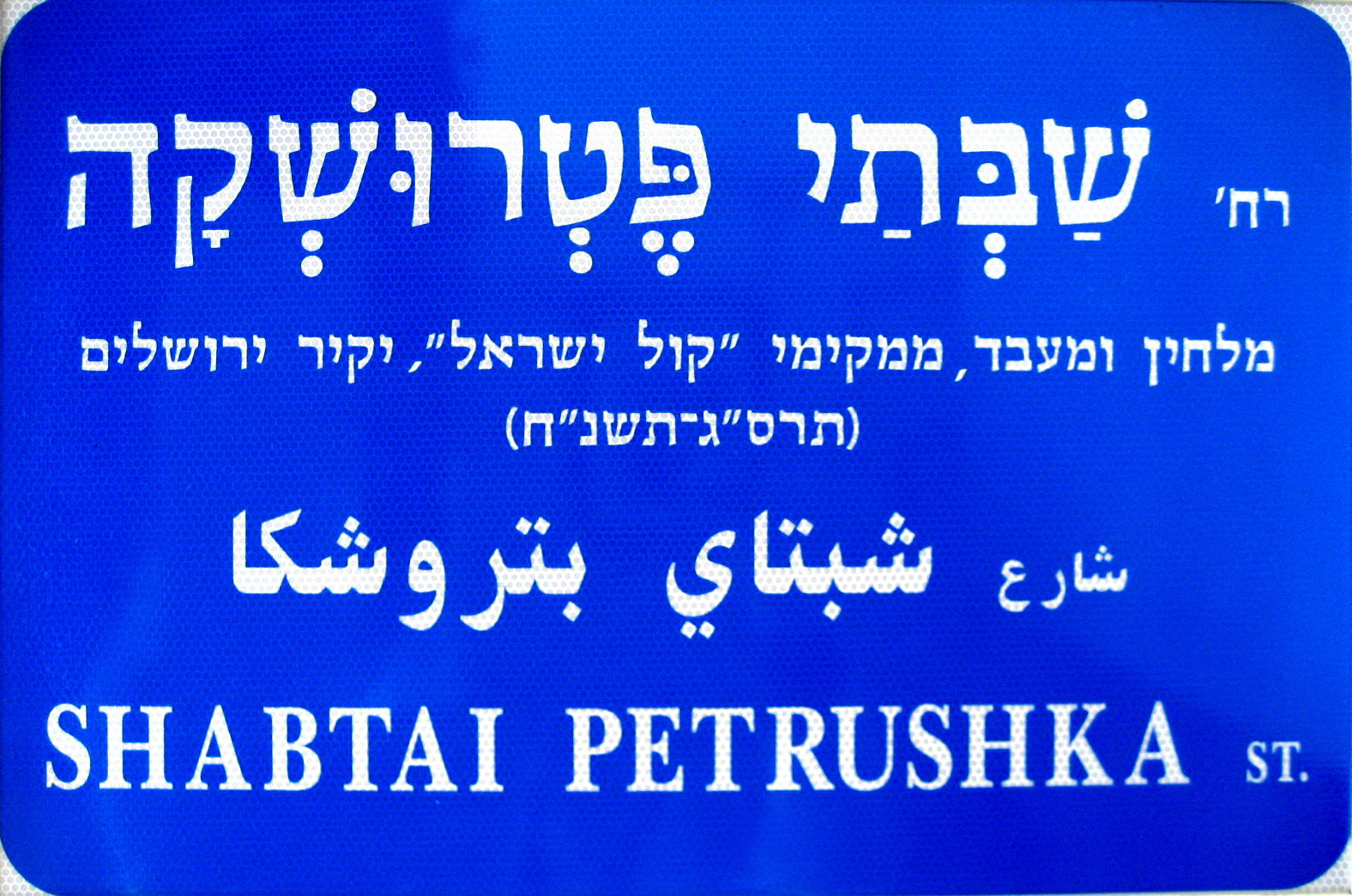 Street name